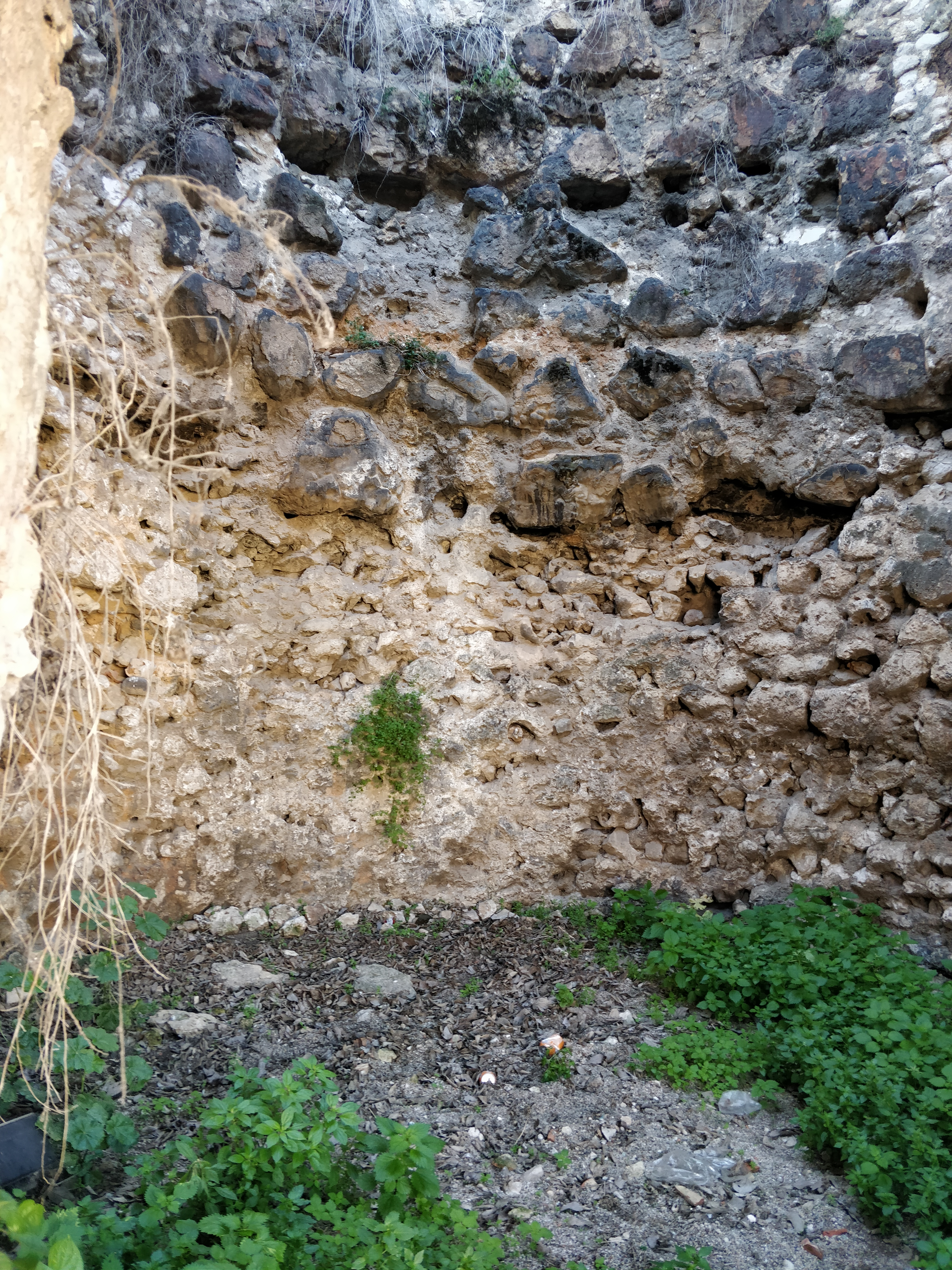 Interior view of the remaining lime kiln in Oeiras, Portugal